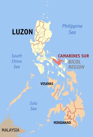 Map of the Philippines showing the location of Camarines Sur